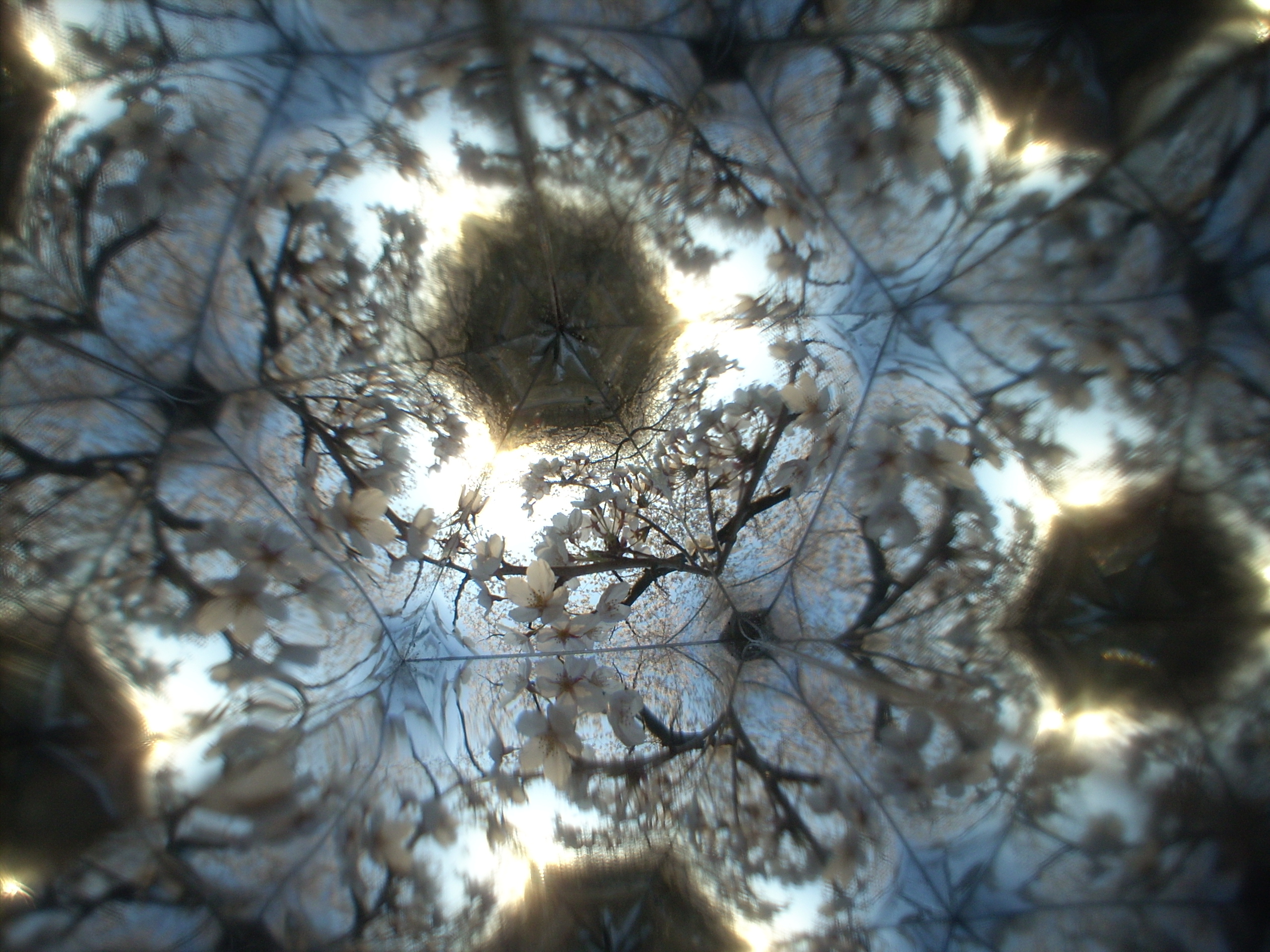 High Park sakura through a homemade teleidoscope.